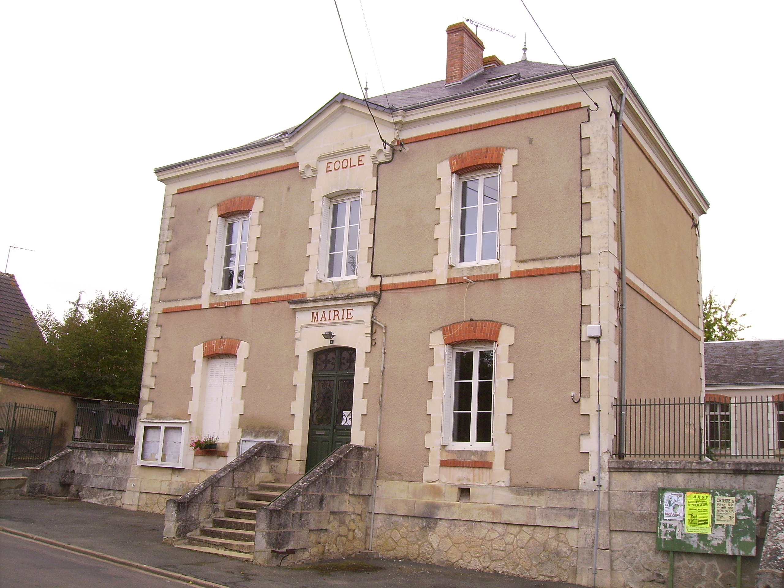 Marie, Préaux, Indre, France